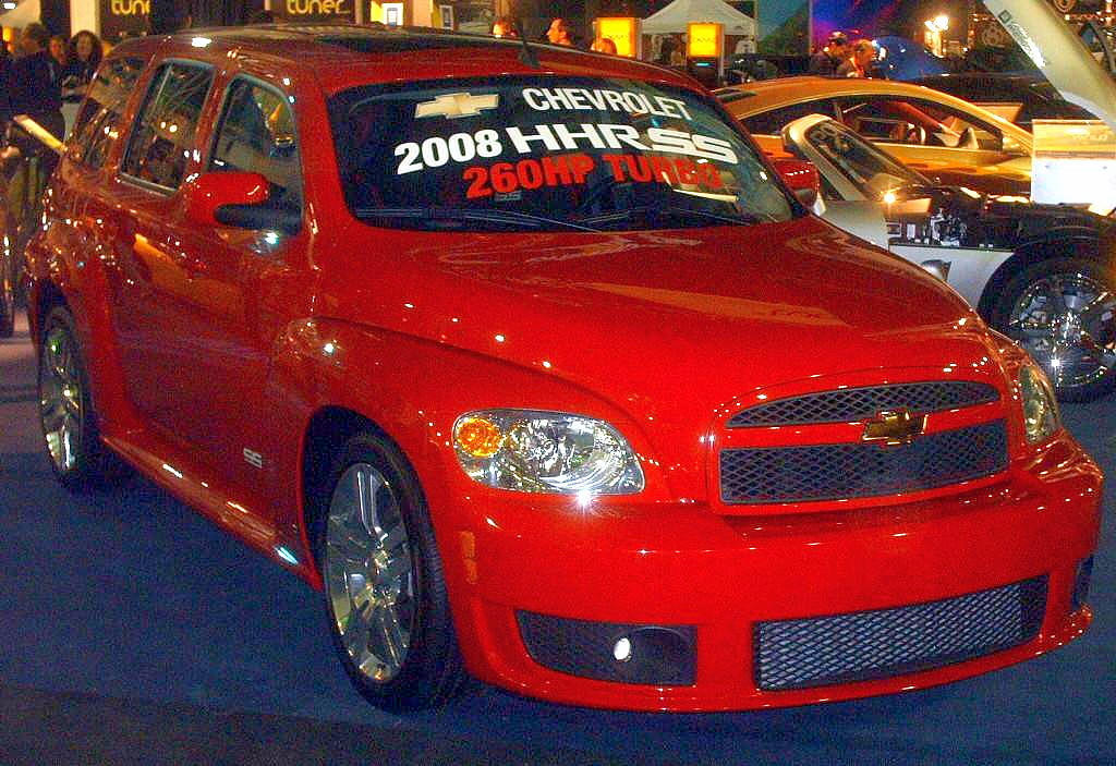 2008 Chevrolet HHR SS photographed at the Montreal Sport Compact Performance Show.